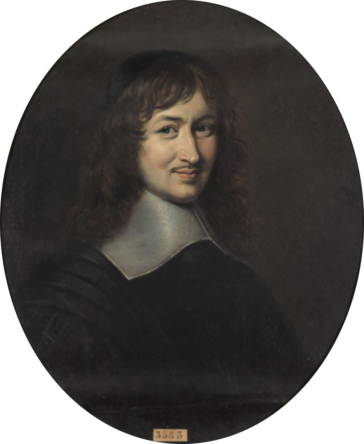 Portrait of Nicolas Fouquet